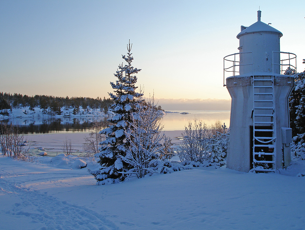 The strait Bredskärssund viewed from Obbola Island with Bredskär Island to the left and the lighthouse Bredskärssund nedre to the right.